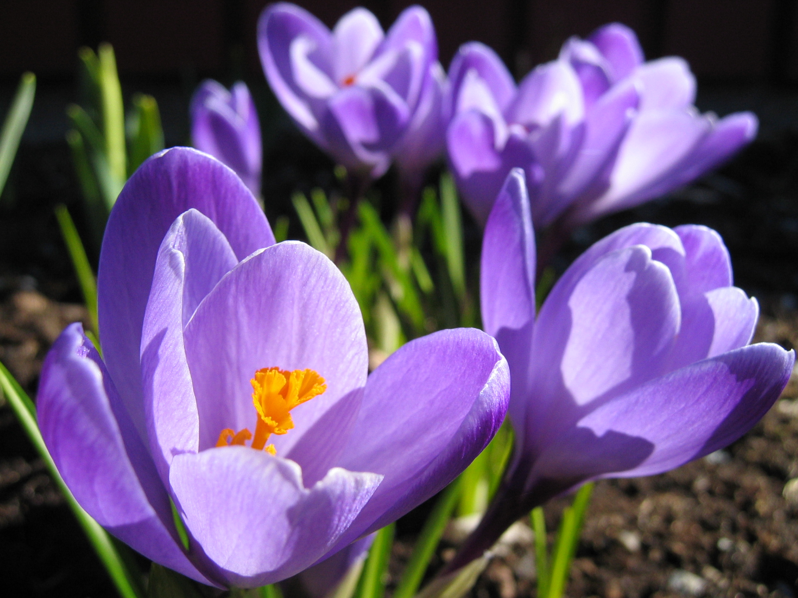 Crocus in spring. April in Sweden.